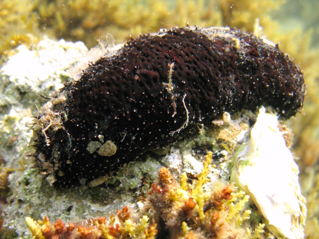 Holothuria poli